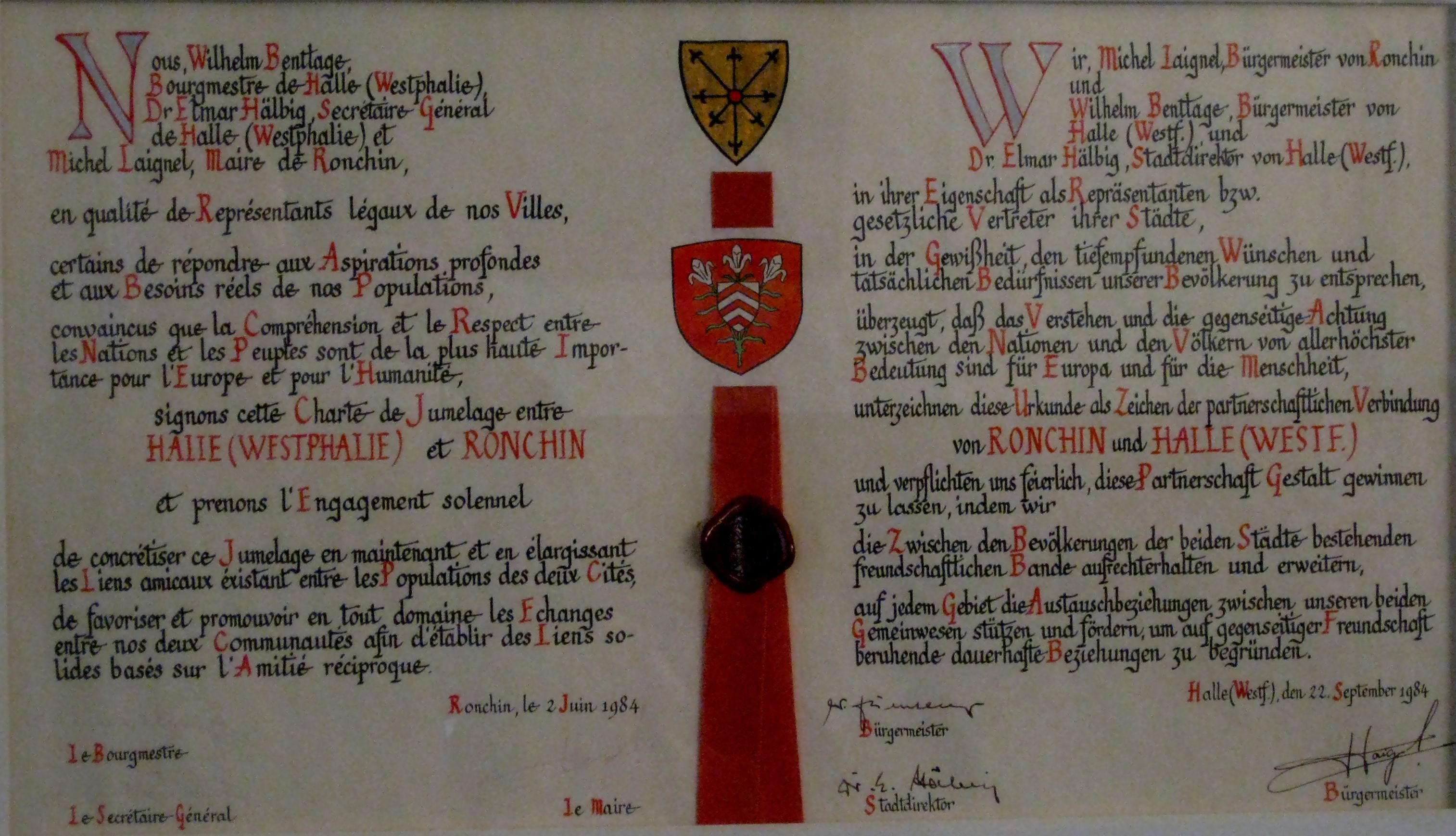 Charter of town twinning with Ronchin in town hall of Halle (Westf.)